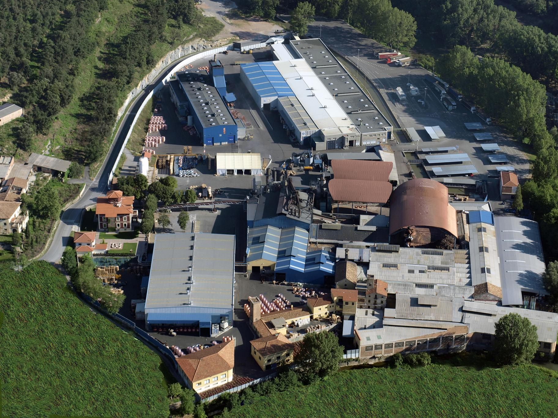 The facilities of the company La Forge Group, a copper smelter that produces and sells copper products to market for electricity, rail, copper tubing, metal containers and billets.